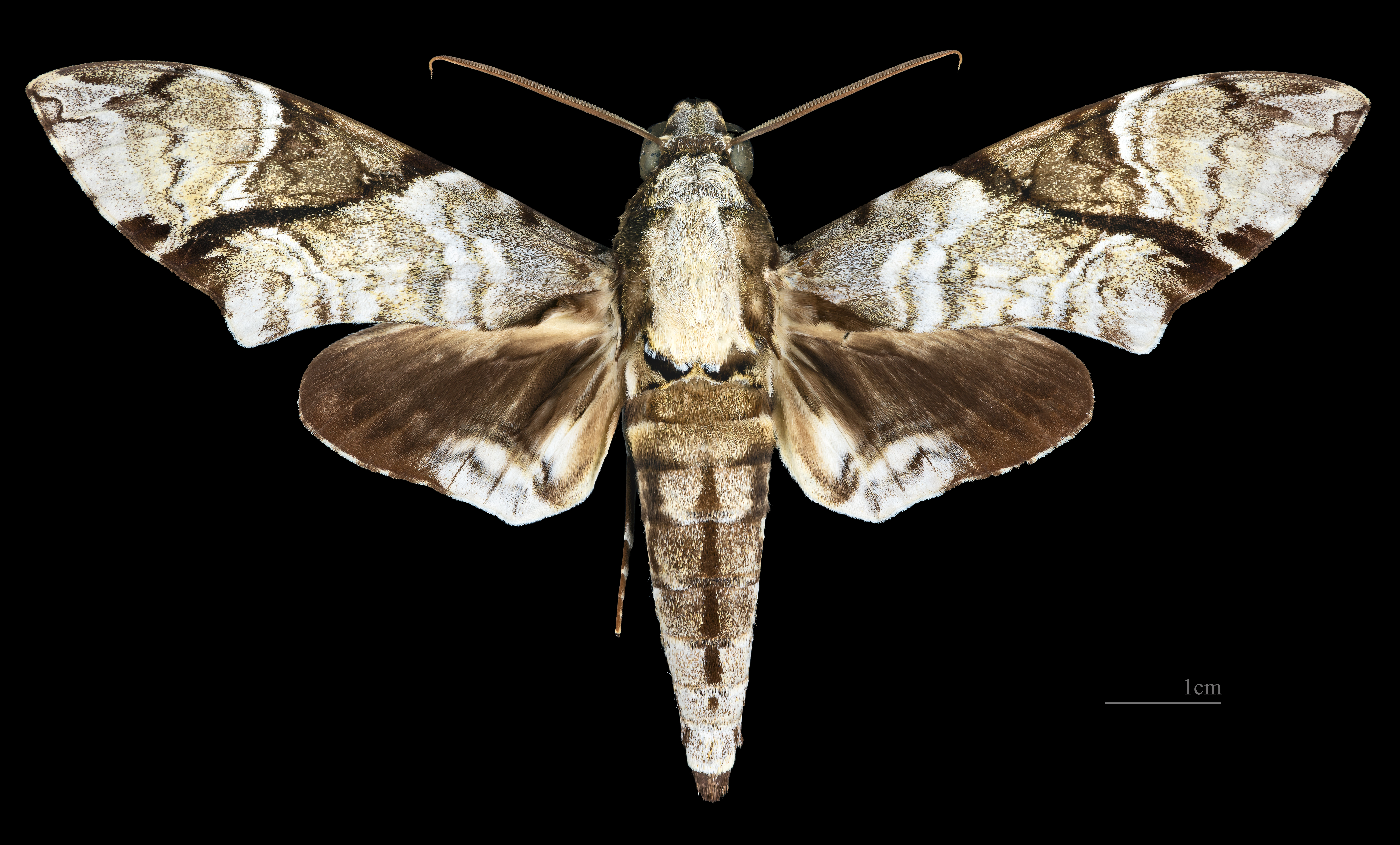 Megacorma obliqua - Dorsal side Collection of the Mathematician Laurent Schwartz